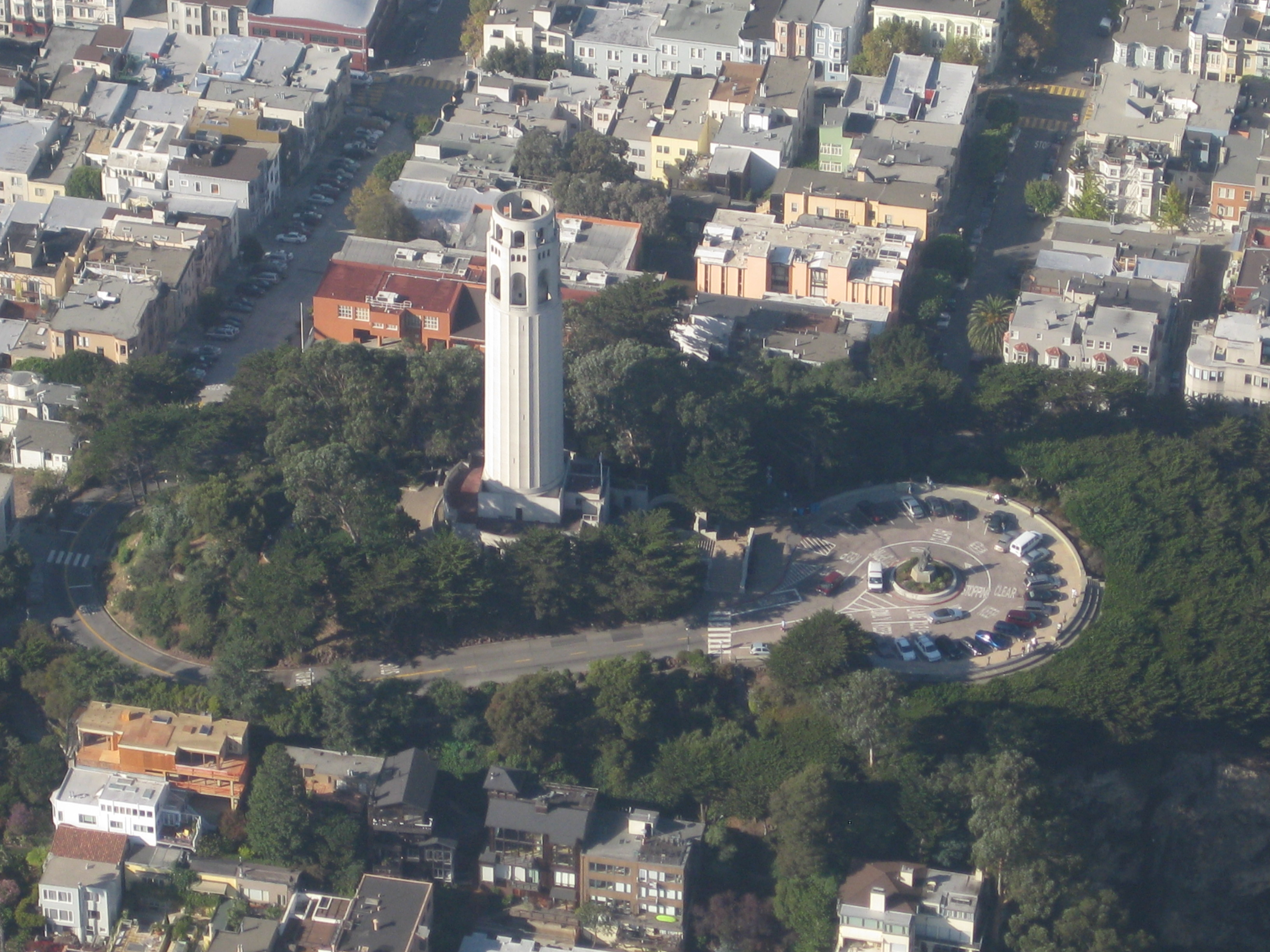 Oblique aerial of Coit Tower